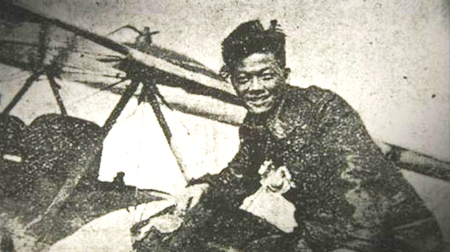 An Chang-nam: first Korean pilot who became national hero